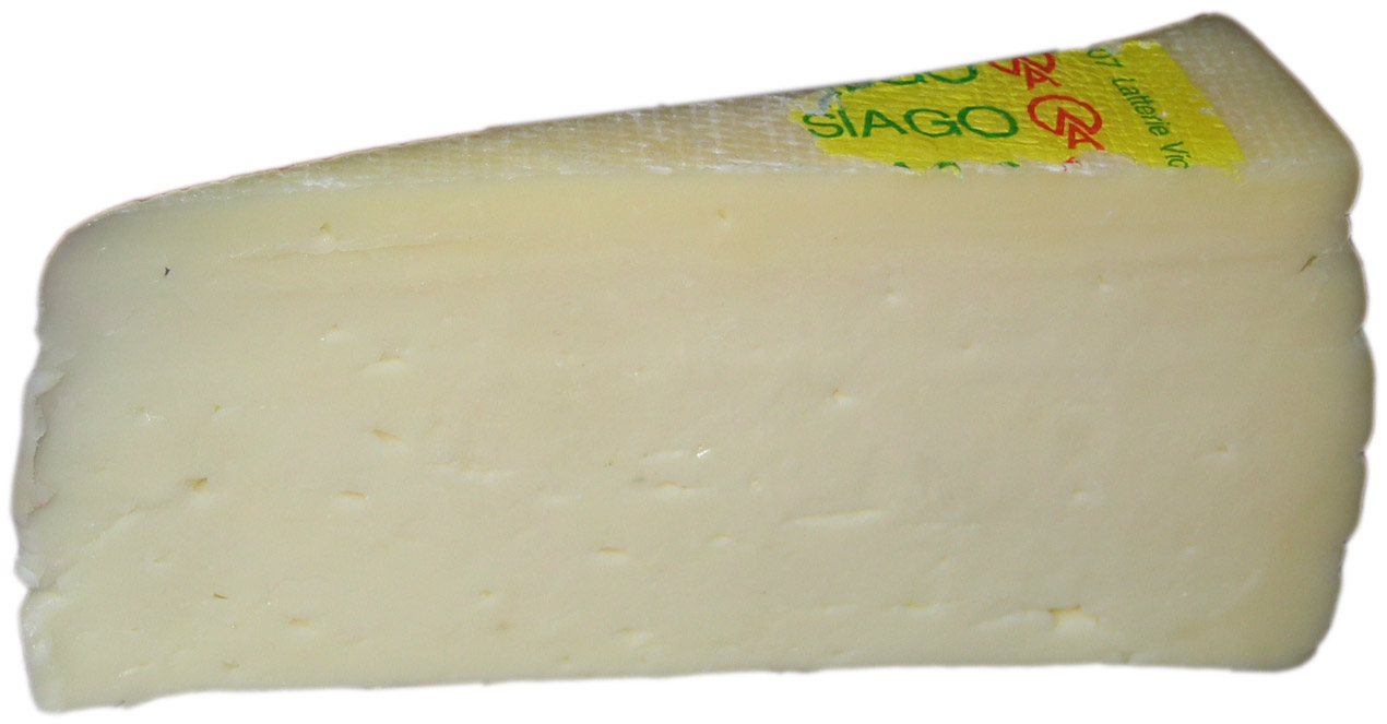 a piece of asiago cheese